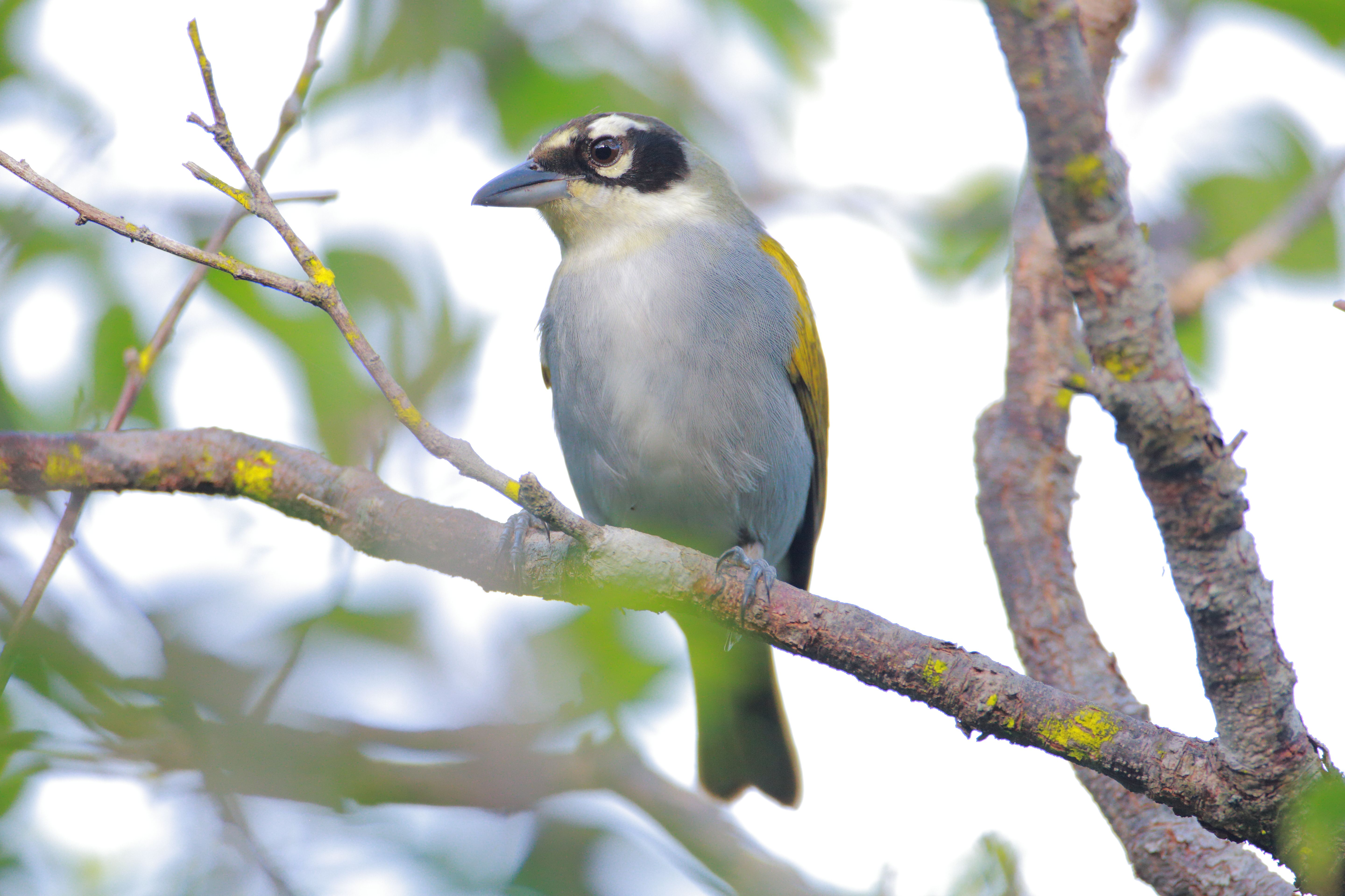 Black-crowned Tanager Phaenicophilus palmarum. Dominican Republic, near La Romana.